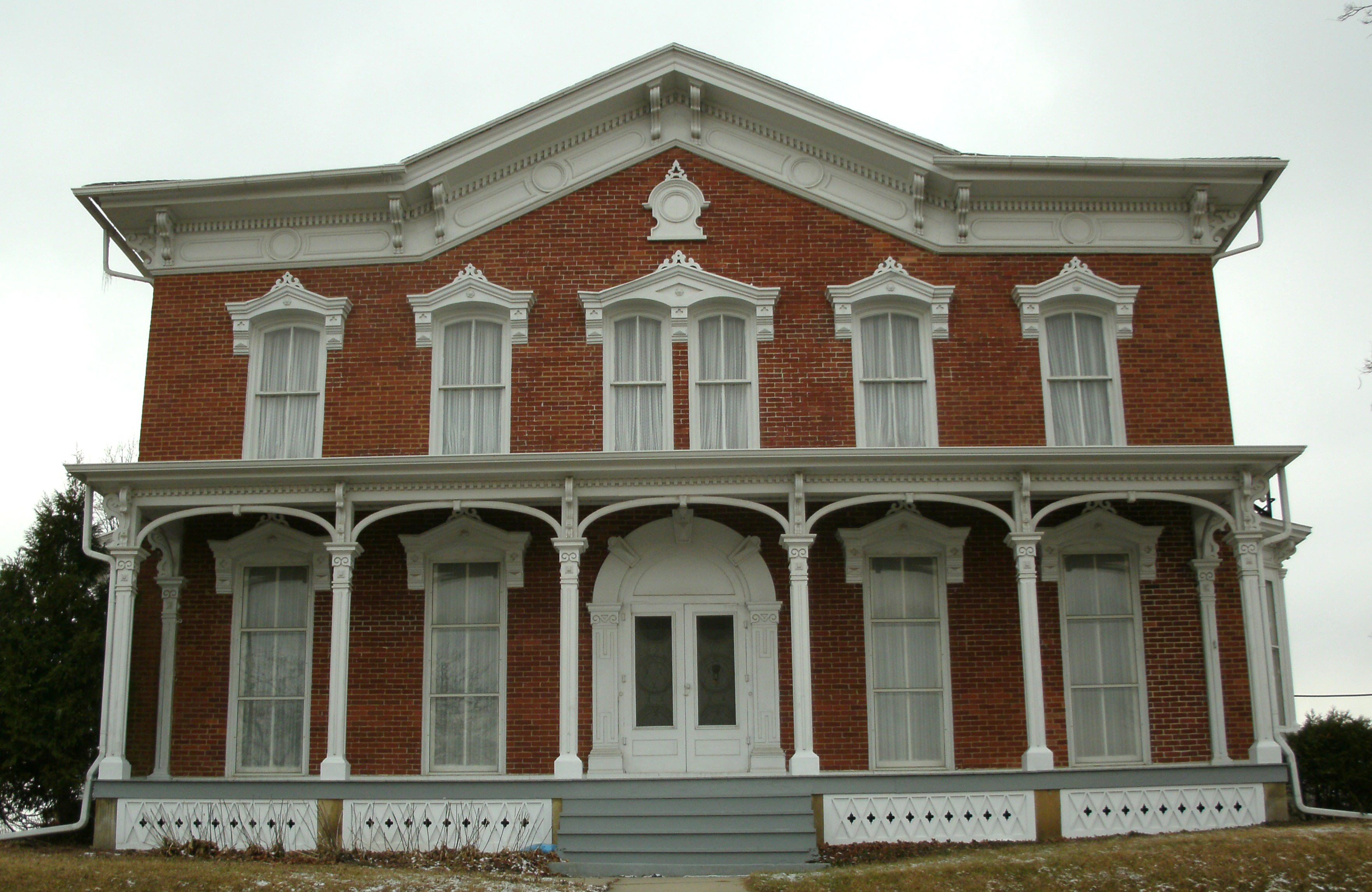 Snowden House located at 306 Washington Street in Waterloo, Black Hawk County, Iowa is on the National Register of Historic Places. Grout Museum District oversees the house as a museum.